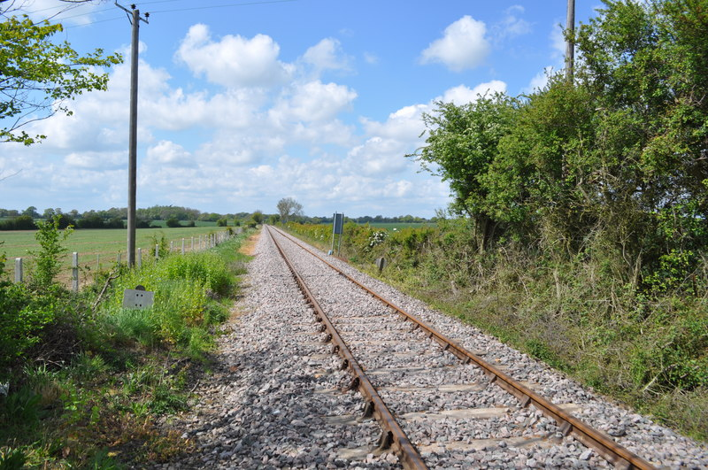 The Aldeburgh Branch, near to Knodishall, Suffolk, Great Britain. The branch ran from Saxmundham to the popular seaside town of Aldburgh via Leiston. The railway closed in the mid 1960s, however due to the construction of Sizewell A nuclear power station a stub was saved, running just beyond Leiston. Today the line is used rarely to take used fuel from Sizewell A which is being decomissioned to Sellafield in Cumbria.